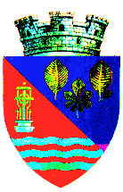 Coat of arms of Făget, Romania